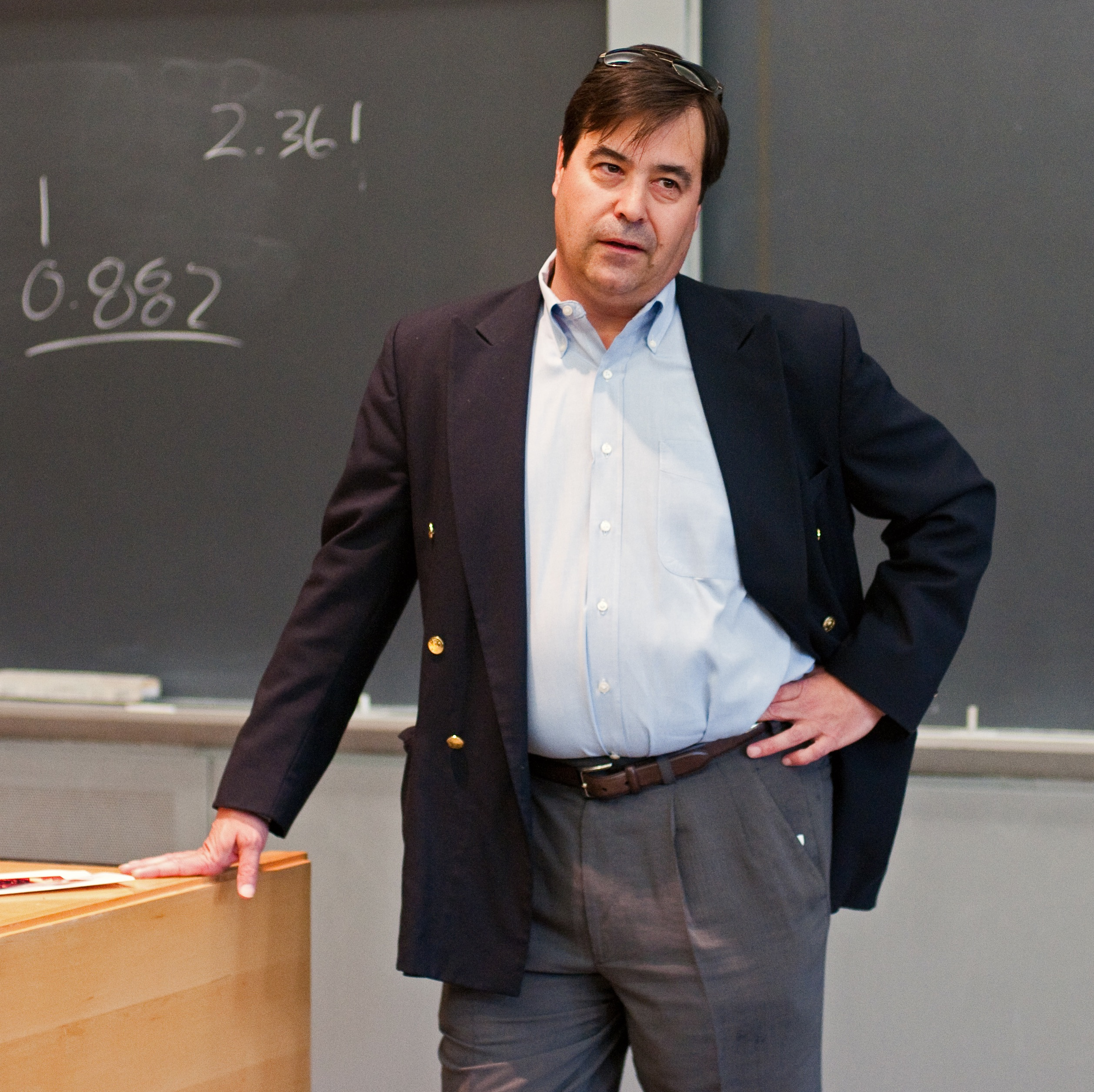 Speaking about his experiences in baseball, including time spent as General Manager of the Montreal Expos and Boston Red Sox.